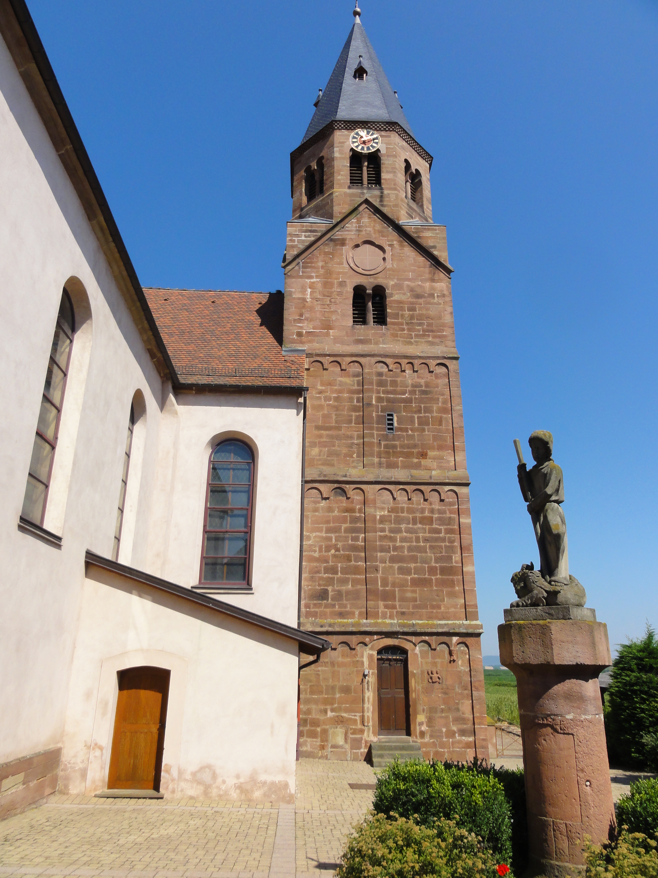 Alsace, Bas-Rhin, Reutenbourg, Église Saint-Cyriaque: It is indexed in the Base Mérimée, a database of architectural heritage maintained by the French Ministry of Culture, under the references PA00084901 and IA67007629.